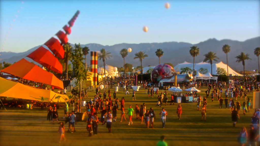 Coachella 2013, with the Do Lab and Helix Poeticus snail visible